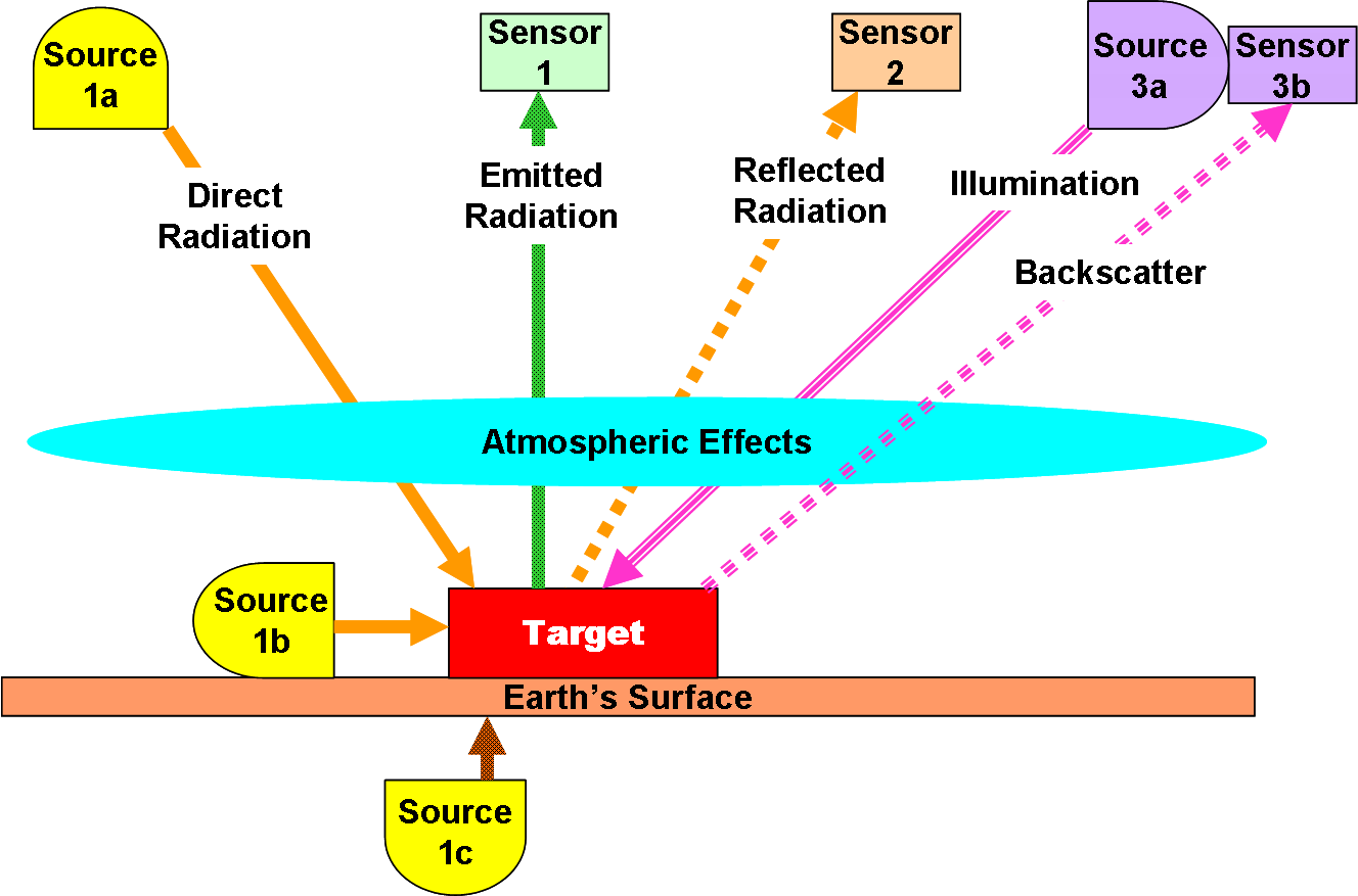 Schematic drawn to show relations among radiation sources, targets, an d sensors in MASINT and other remote sensing applications